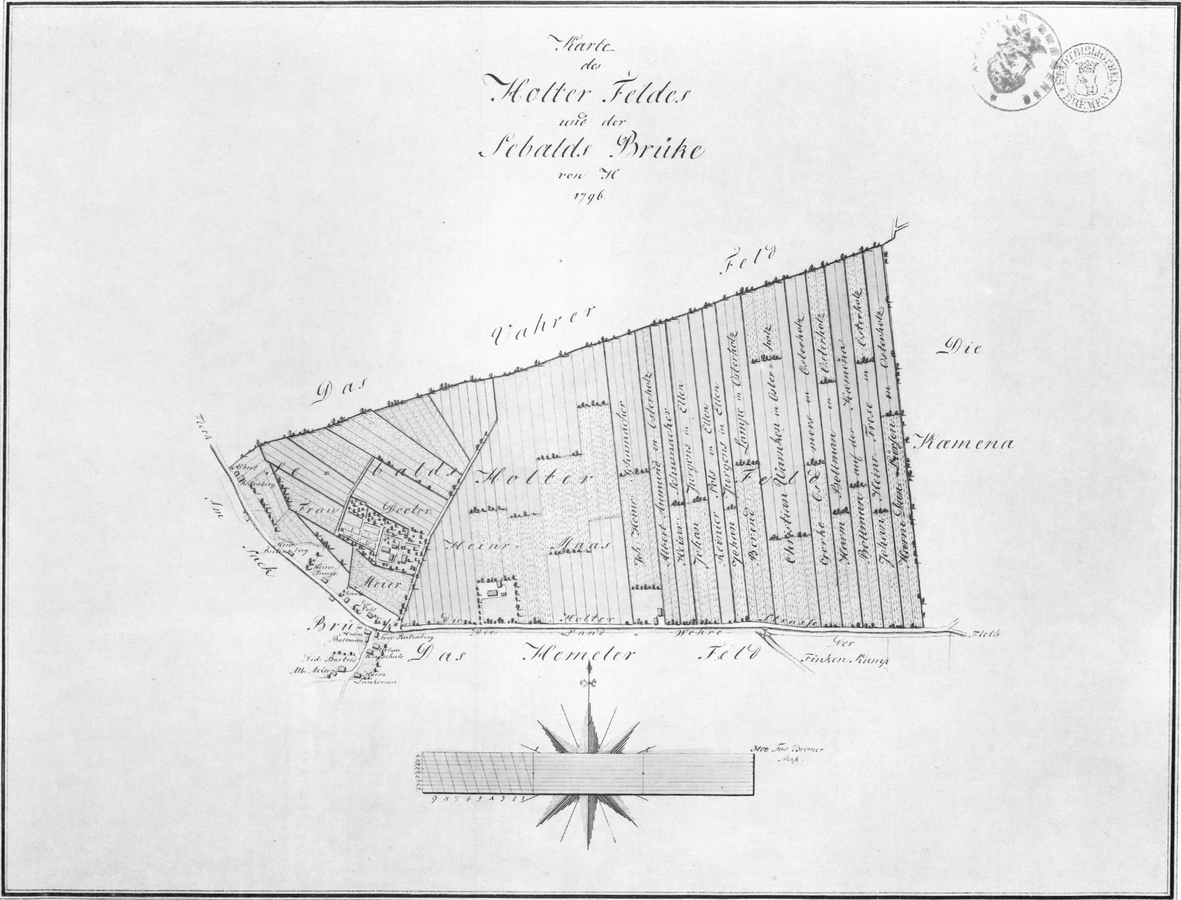 Original title: Map of the Field of (Oster-)Holt and Sebald's Bridge by H(eineken) 1796